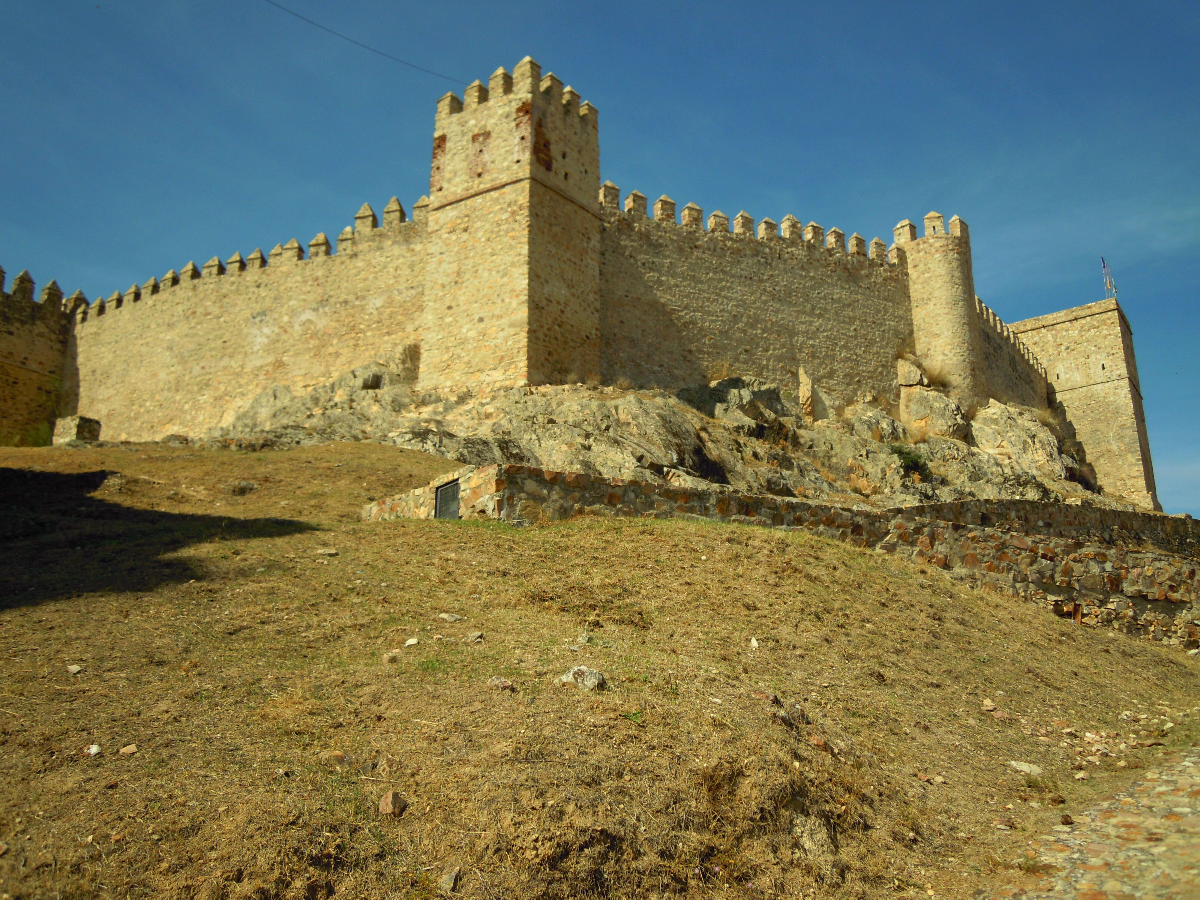 The Castle in the village of Santa Olalla del Cala, Spain